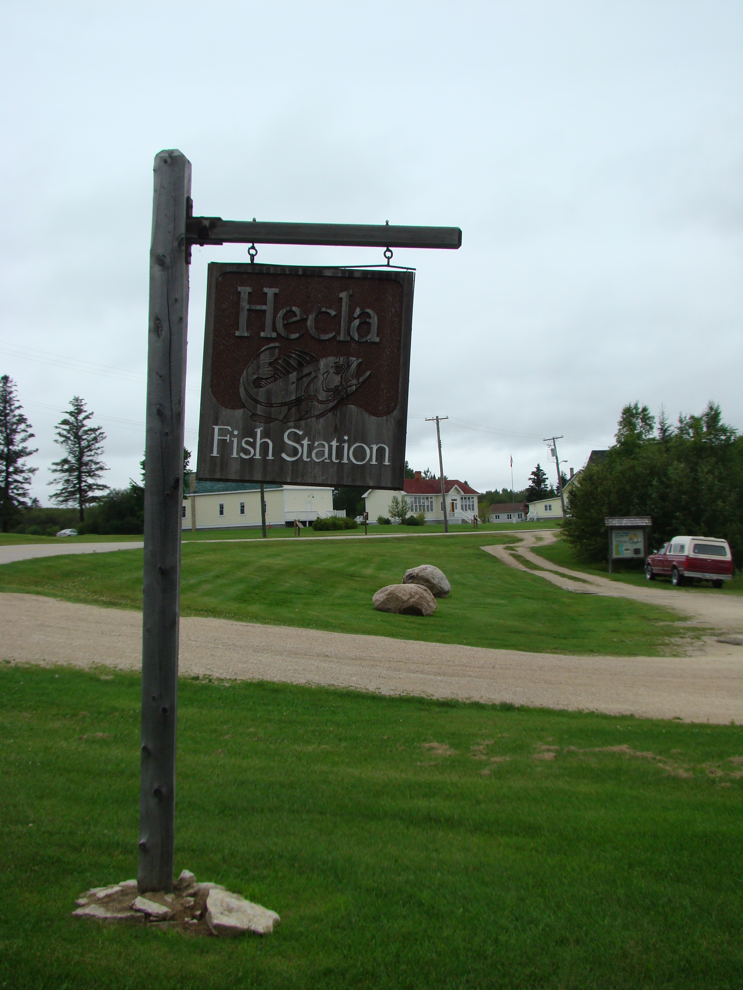 Hecla Island and Provincial Park in Lake Winnipeg Manitoba